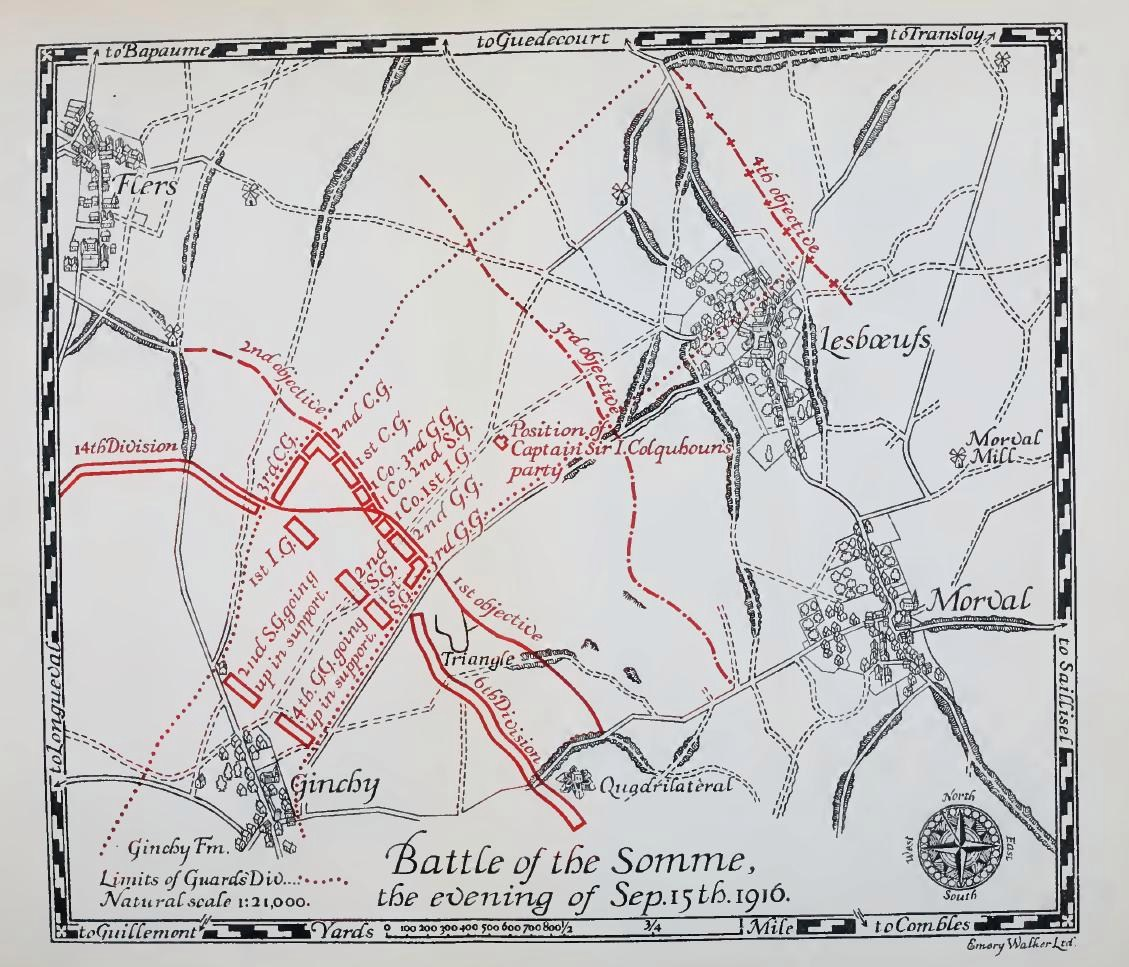 Guards Division, Battle of the Somme, evening 15 September 1916